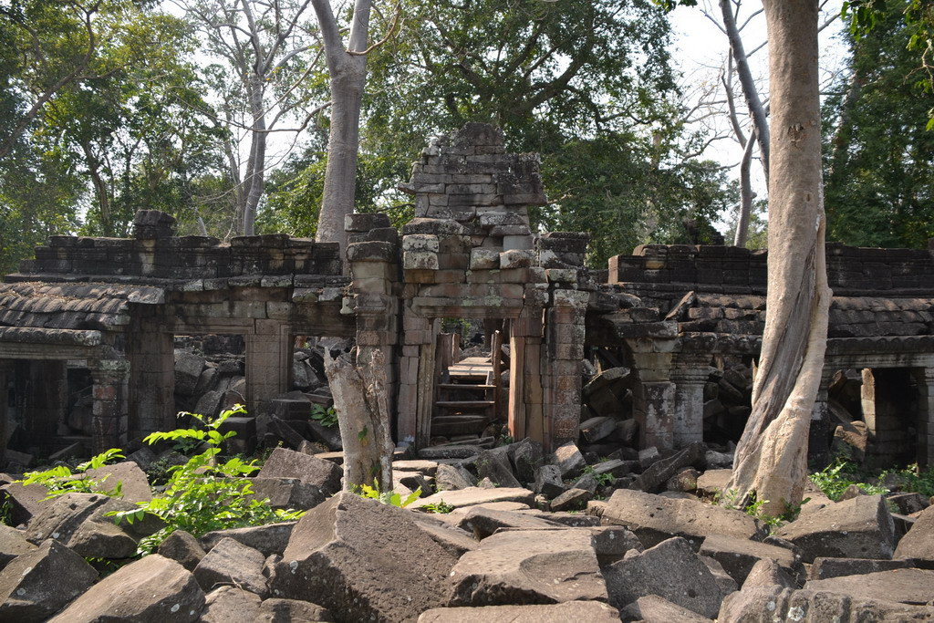 Banteay Chhmar Temple entrance.